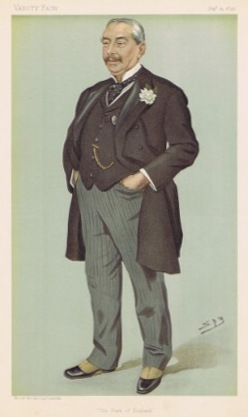 Caricature of Mr Albert George Sandeman. Caption read "The Bank of England".